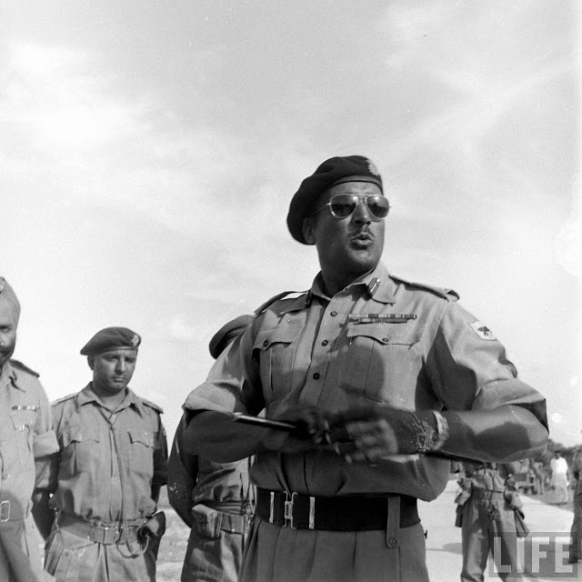 Jayonto Nath Choudhury during Operation Polo